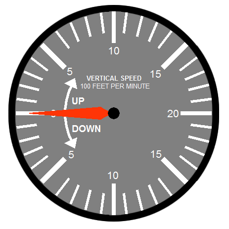 Drawing of a Vertical speed indicator.